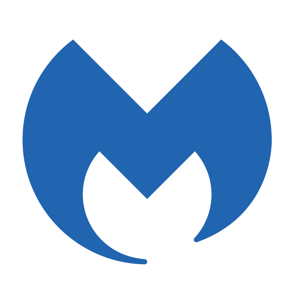 Malwarebytes Logo Symbol